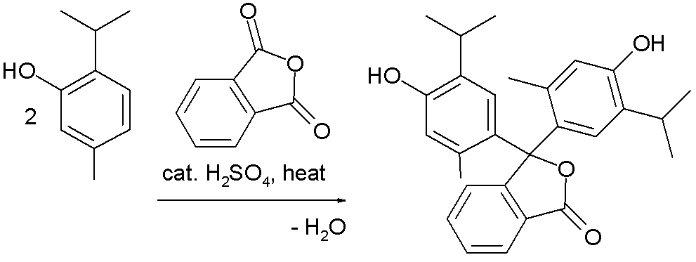 Thymolphthalein Synthesis